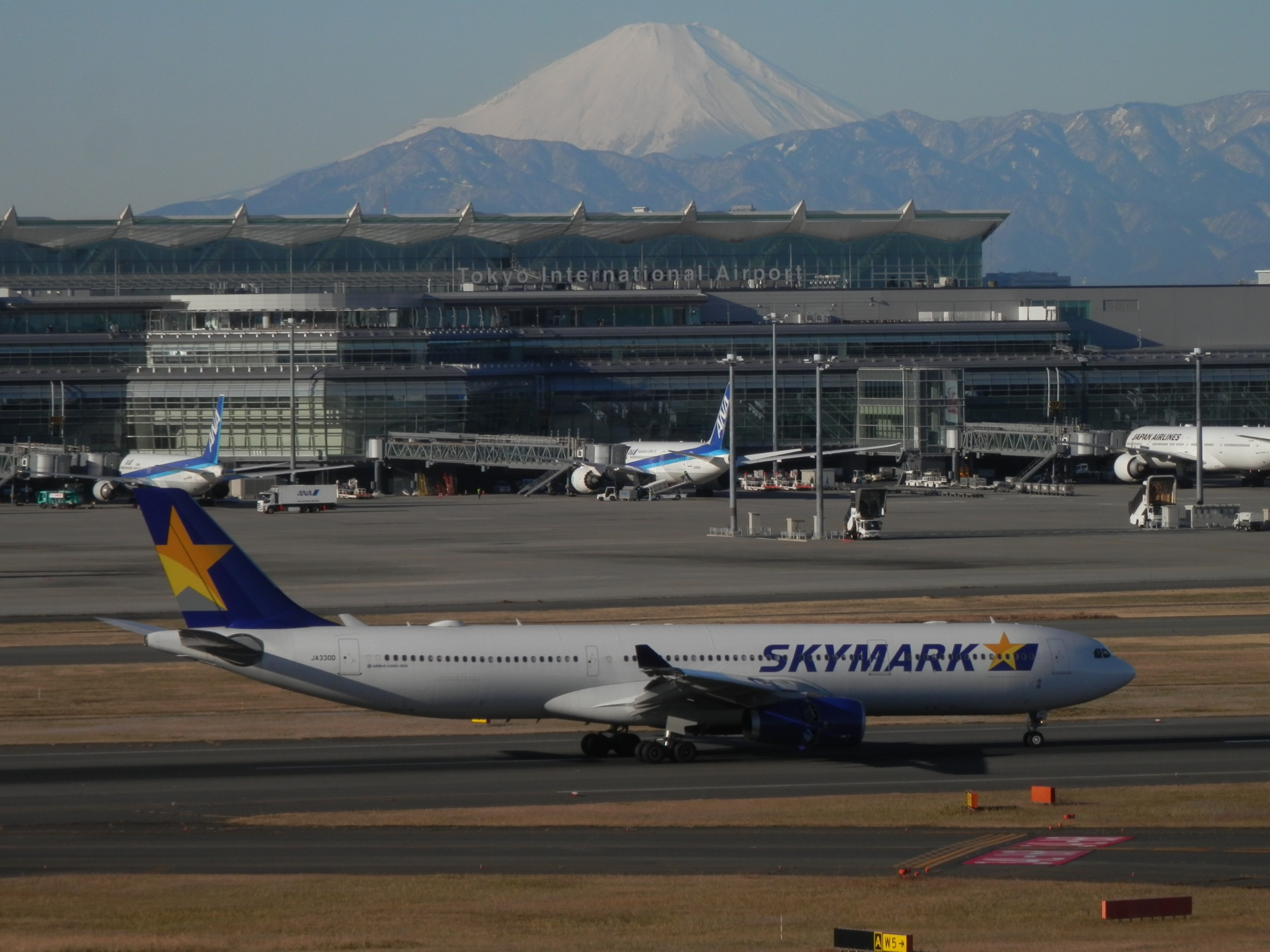 Skymark A330-300(JA330D) at Tokyo Int'l Airport